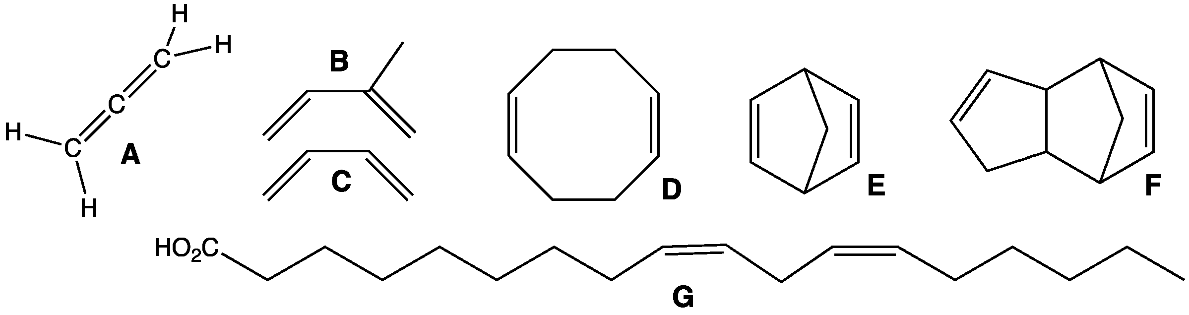 structure of various dienes